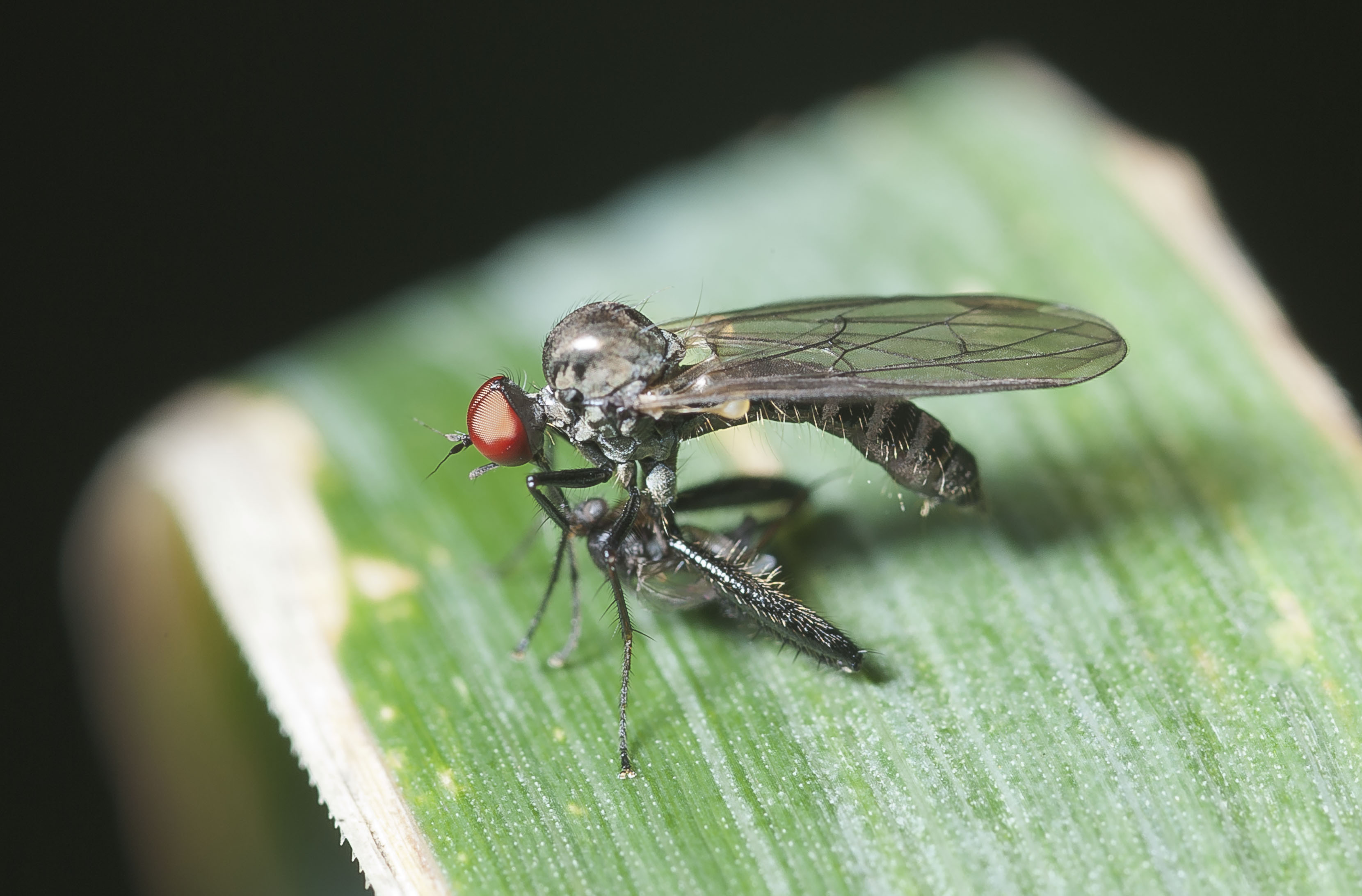 Hybos culiciformis, Stuttgart, Germany. Thanks to the members of Entomologie.de for the identification.